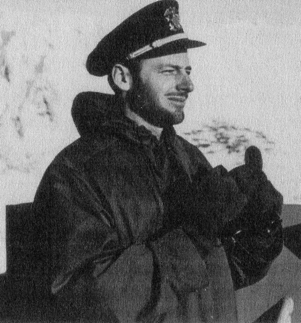 Capt. (then Lt) Robert McWethy aboard the US Navy icebreaker, USS Burton Island. McWethy was a pioneer of Naval navigation in Arctic waters.